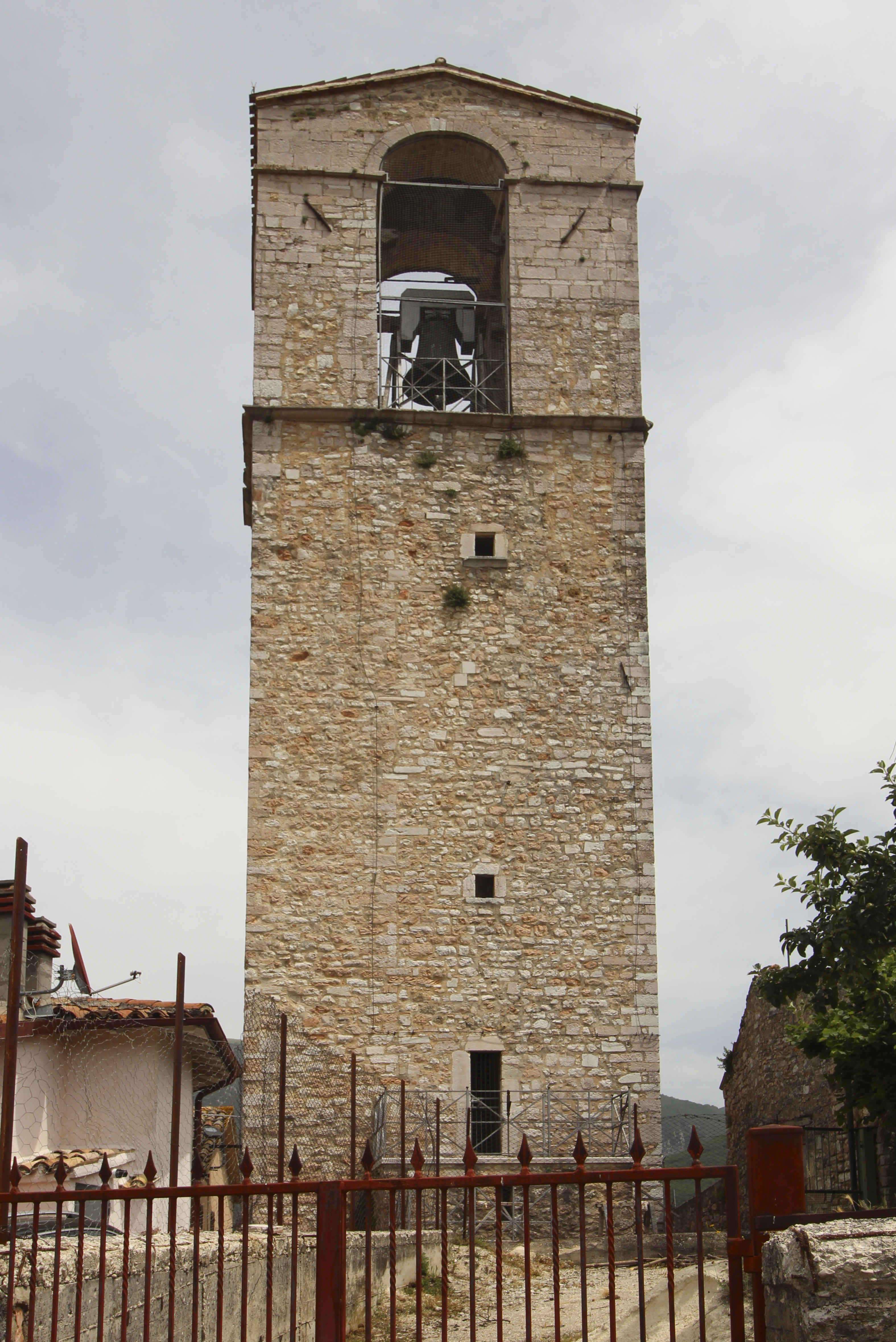 Bell tower Torre Campanaria, Cerreto di Spoleto, Province of Perugia, Umbria, Italy